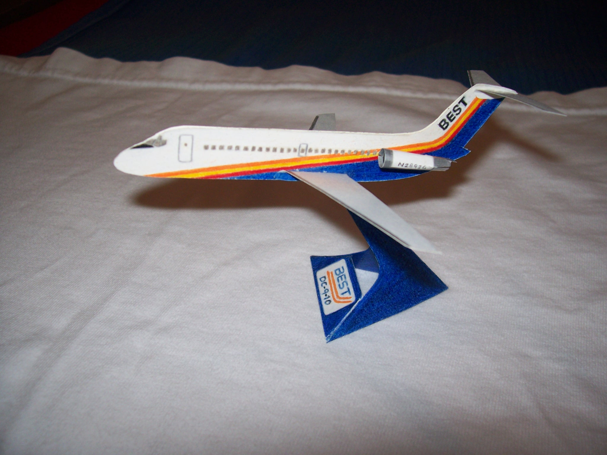 Model of DC-9-10 aircraft operated by short-lived 1980's USA airline Best Airlines